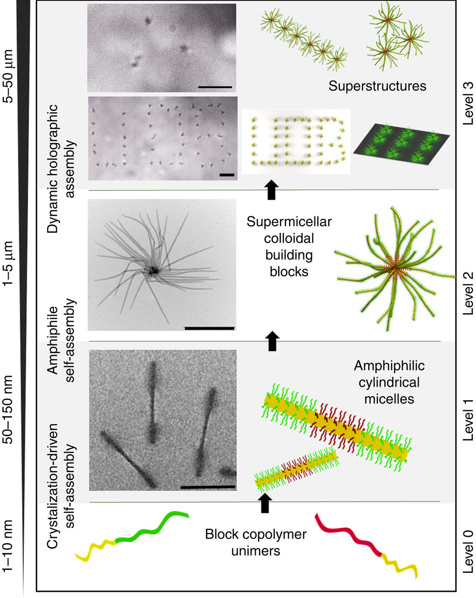 Level 1: TEM images of amphiphilic triblock cylindrical micelles. Scale bar is 500 nm. Level 2: Supermicelles created by self-assembly of amphiphilic cylindrical micelles. Scale bar is 2 μm. Level 3: Optical microscope images showing supermicellar assemblies created using optical tweezers. Scale bars are 5 μm.